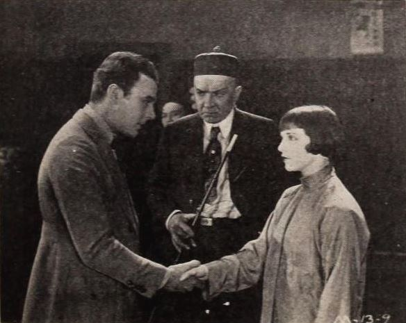 Still from the American drama film Wing Toy (1921) with Raymond McKee, an unidentified actor, and Shirley Mason, on page 71 of the January 8, 1921 Exhibitors Herald.